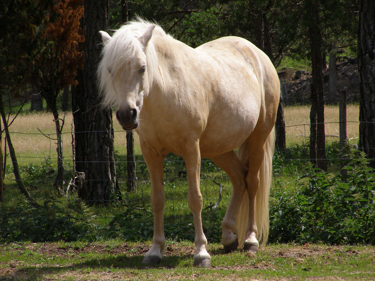 Gotland pony on its native island.